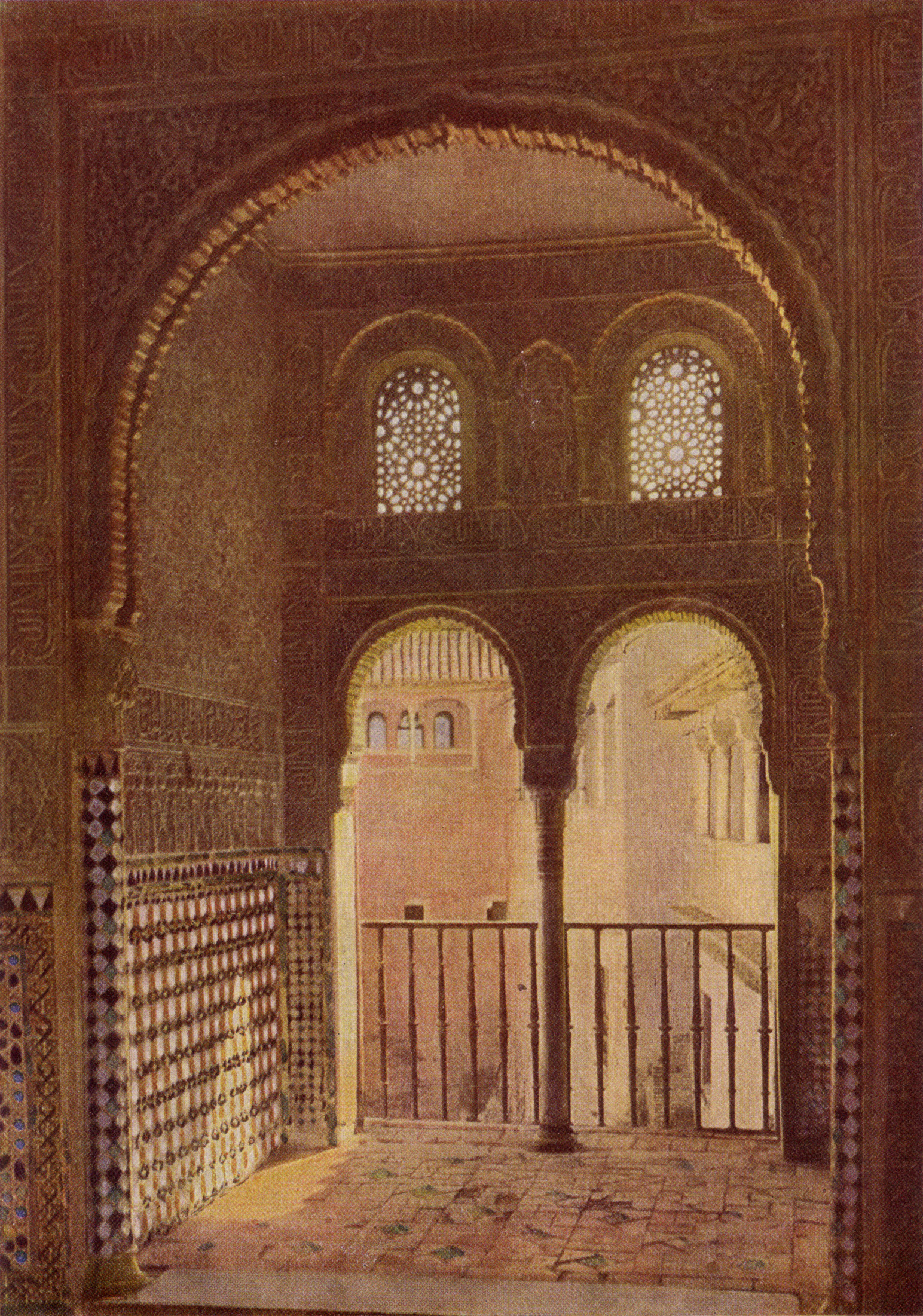 FROM THE THRONE ROOM OF THE MOORS. One of the embrasures, or window alcoves, of the Hall of the Ambassadors in the Alhambra at Granada, Spain. In this room met the last assembly of the Moors, summoned by Boabdil to consider the surrender of Granada to the Spanish King Ferdinand just before Columbus discovered America. The visitor is impressed with the fact that the depiction of living things is avoided in Moorish architecture and that the decoration is accomplished with geometrical designs which are astonishingly beautiful.